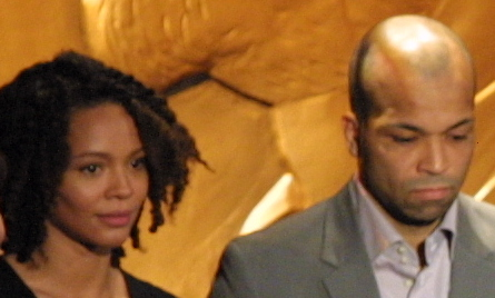 PHOTO CREDIT: ANDERS KRUSBERG / PEABODY AWARDS Carmen Ejogo and Jeffrey Wright 61st Annual Peabody Awards Luncheon Waldorf=Astoria Hotel May 20, 2002